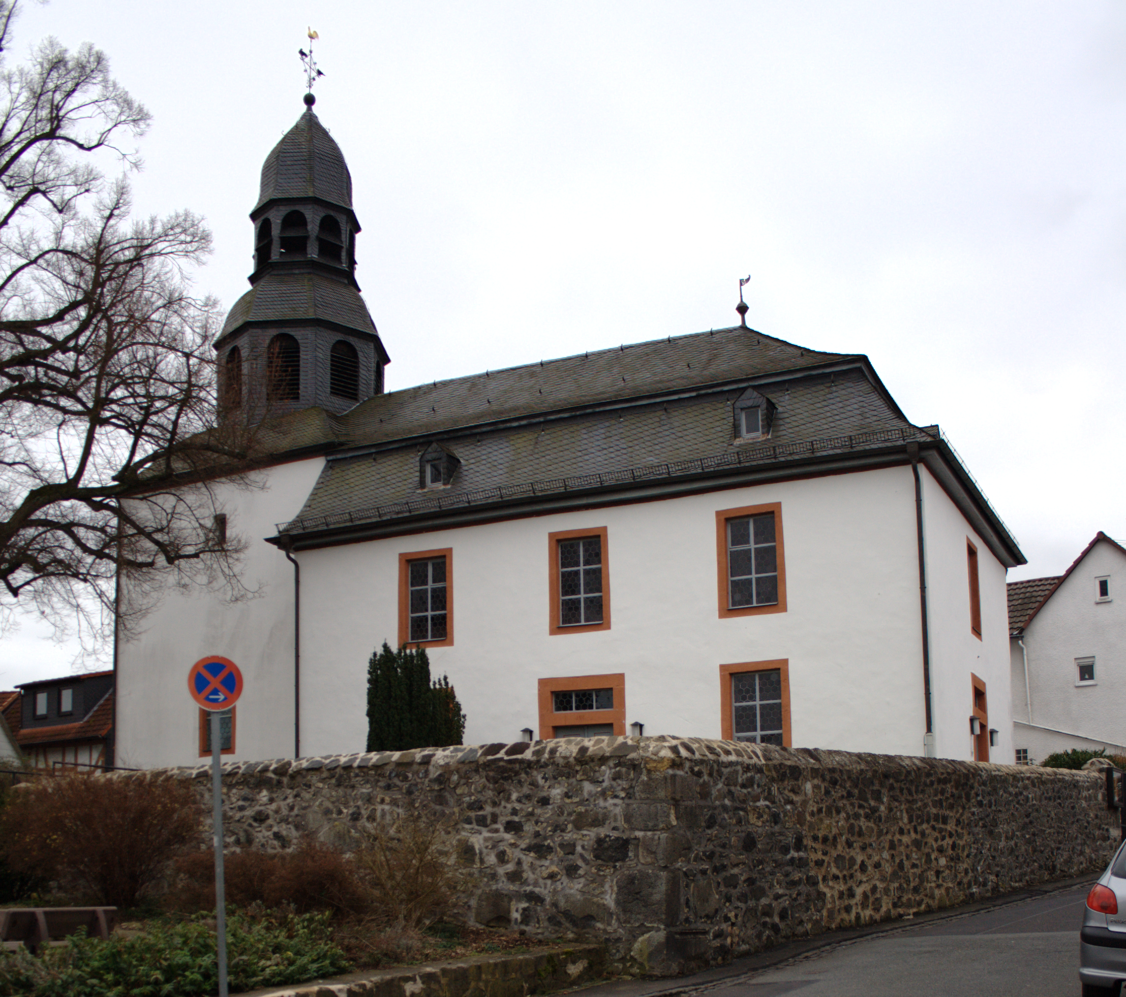 Protestant church in Giessen/Roedgen Kirchenring 12 / Hesse / Germany